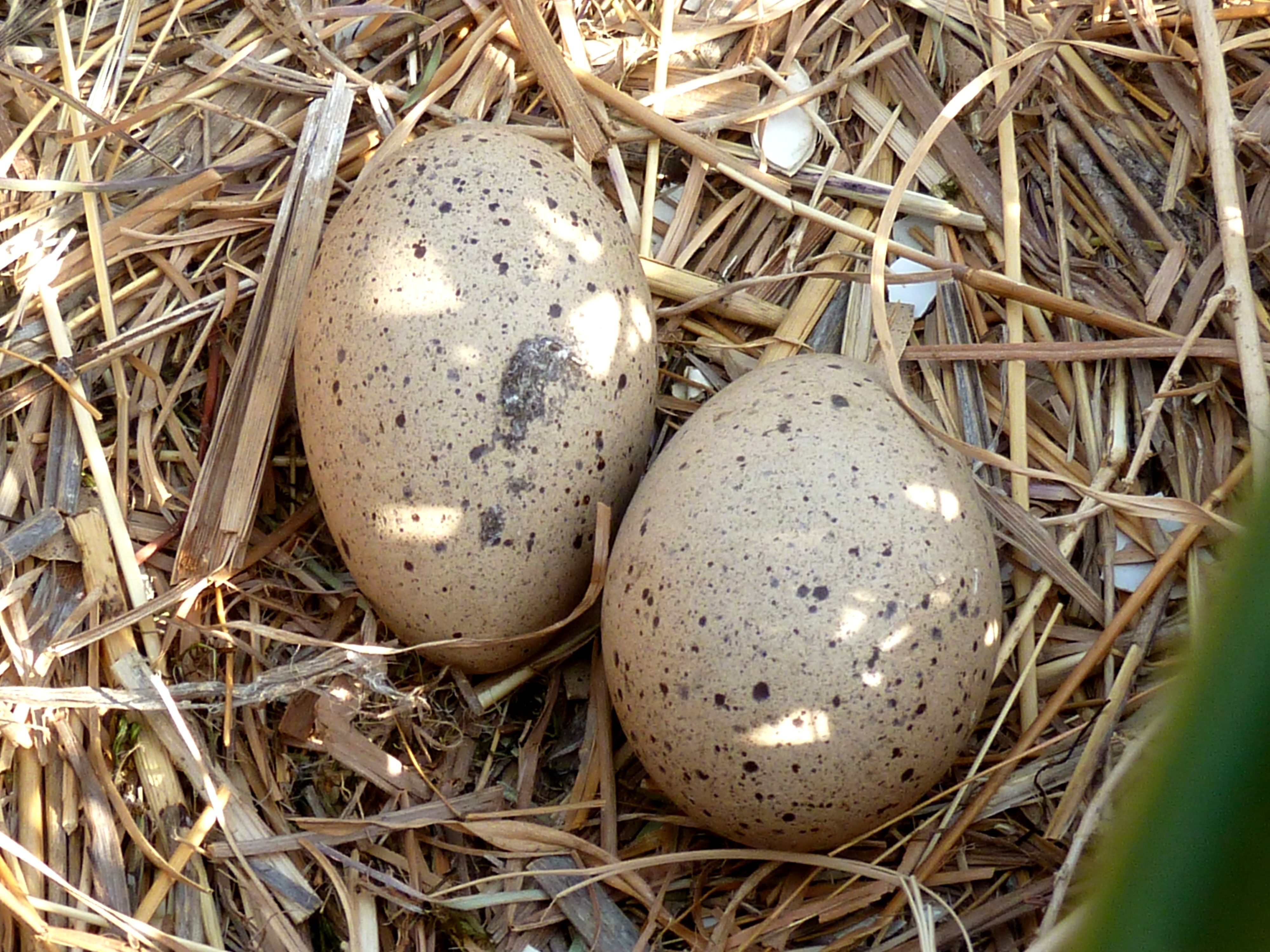 Clutch of Red-knobbed Coots at Little Eden, De Tweedespruit conservancy, Gauteng